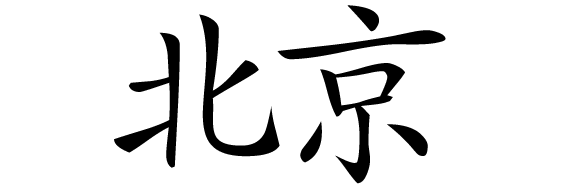 the word "Běijīng" in Chinese characters (Hanzi); landscape format for the German Wiktionary